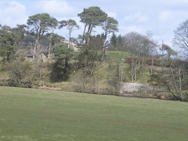 Coulter Motte Hill I was a bit disappointed when I was younger having found there was a historic site nearby and cycled out here. It all looked a bit nondescript. I couldn't really imagine a palisade and timber tower atop it in its strategic site at a crossing of the River Clyde.